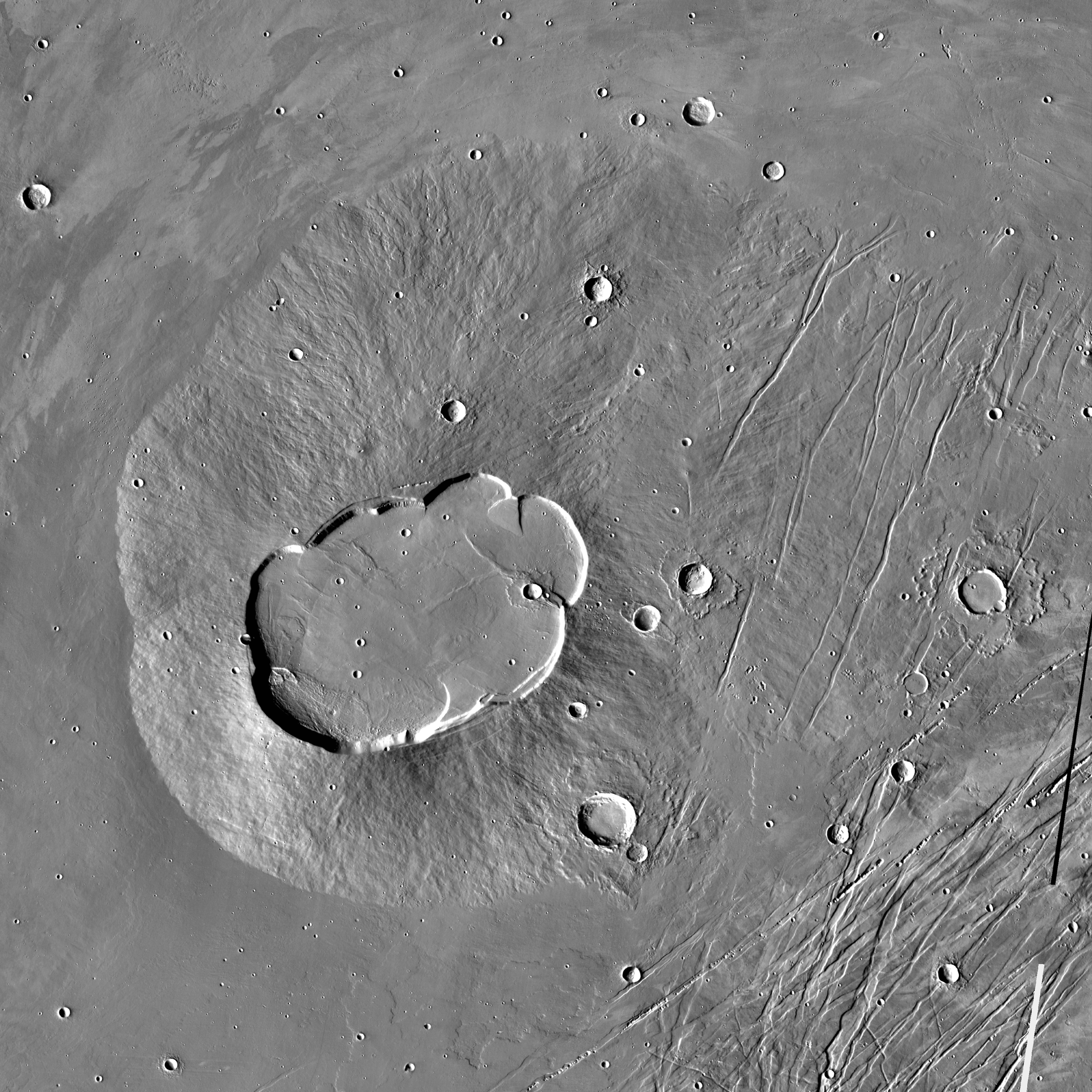 THEMIS daytime infrared image mosaic showing the volcano Uranius Mons in the northeast part of the Tharsis region of Mars.